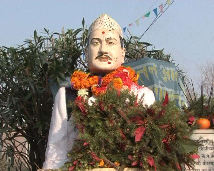 Nepali martyre